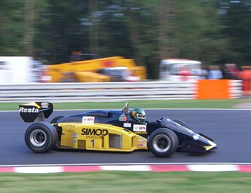 Description Rodergigo Gallego Minardi M185 (2005) DateSeptember 2005, Brands Hatch, EnglandSourcephoto taken by edvvc. Source: FlickrAuthoredvvcPermission (Reusing this file) cc-by-2.0 This picture has been cropped to focus on the subject Category:Formula One images Rodergigo Gallego Minardi M185 (2005)